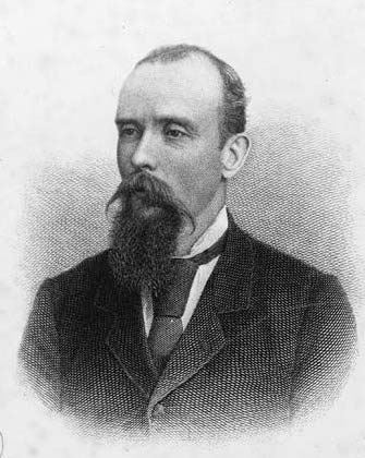 Scan of out-of-copyright photo of Thomas Bracken (1843-1898); pic from irish/gall-biogs.html